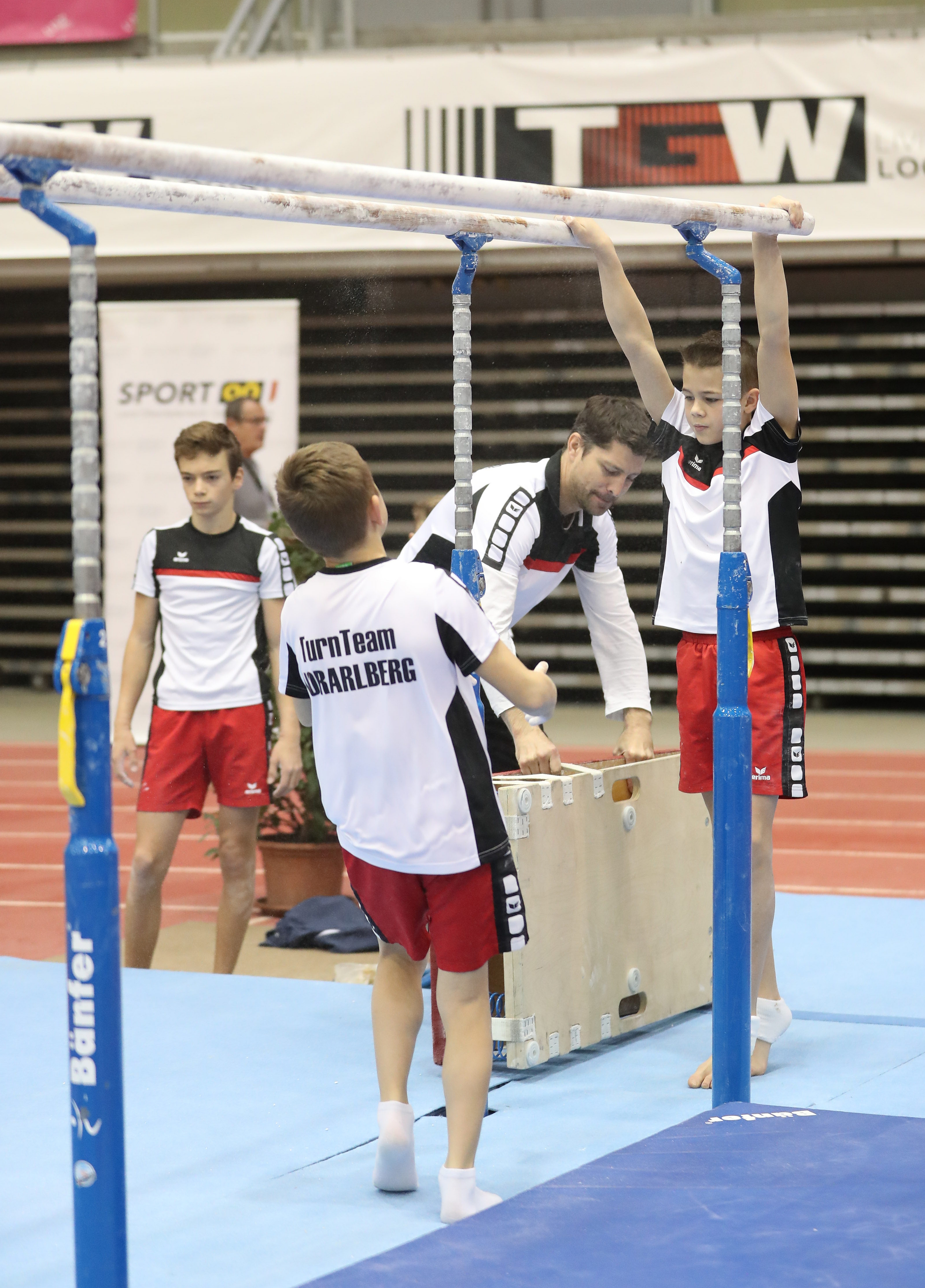 Warm-up of the first group on parallel bars at the 15th Austrian TGW Future Cup Linz 2018. Depicted: David Bickel. Gino Vetter. Joel Jauk. Mateo Fraisl.